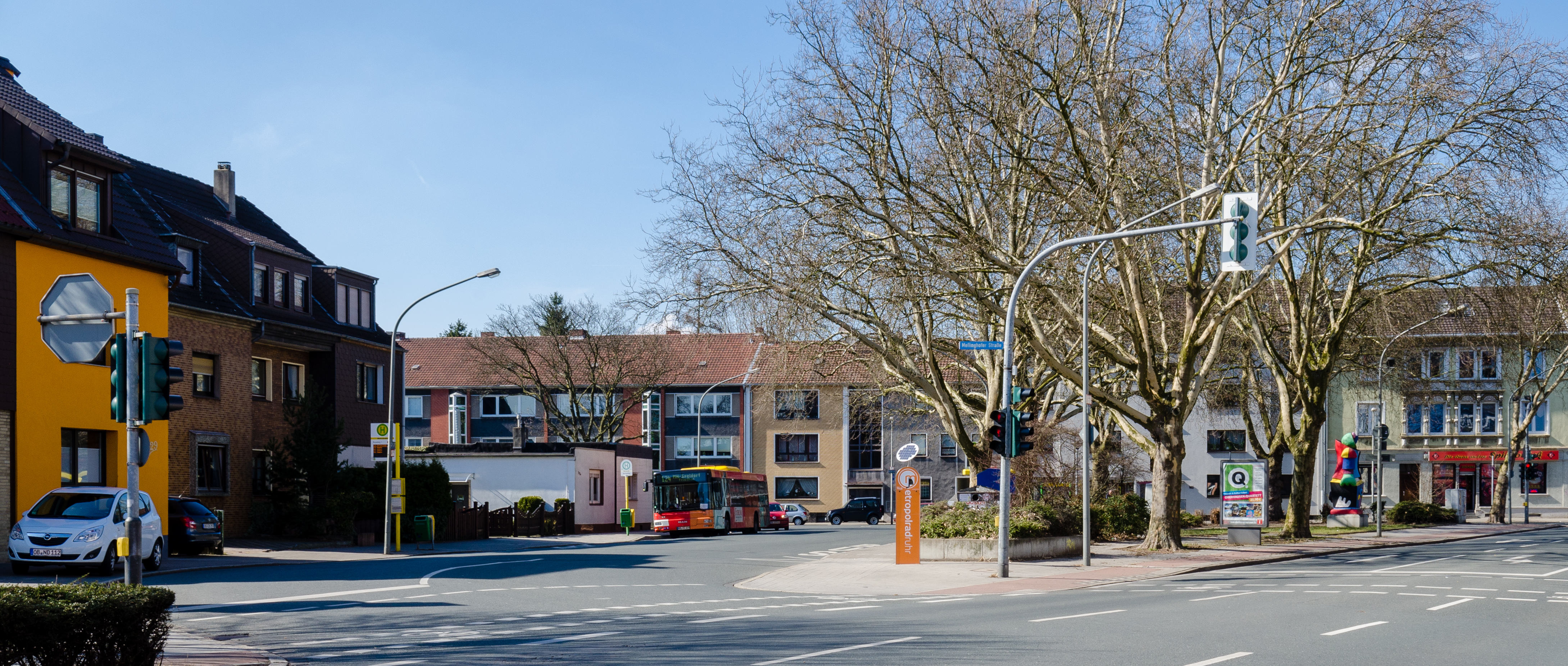 Wehrplatz in Oberhause Dümpten, central public transportation point